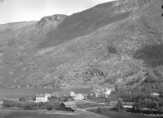 Flåm, Aurland, Norway